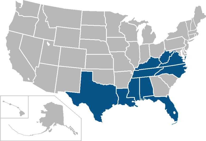 derived from [1]; map of states with C-USA schools (and their division)